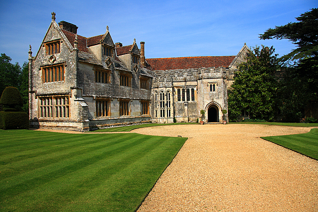 Athelhampton House the South Front Another Dorset gem, Athelhampton House was built by the grandson of Sir Richard Martyn, Sir William Martyn in the year of the Battle of Bosworth, in 1485. The house features as "Athelhall" in Thomas Hardy's short story "The Waiting Supper", and is a premier stately home open to the public throughout the year. Grade I Listed.